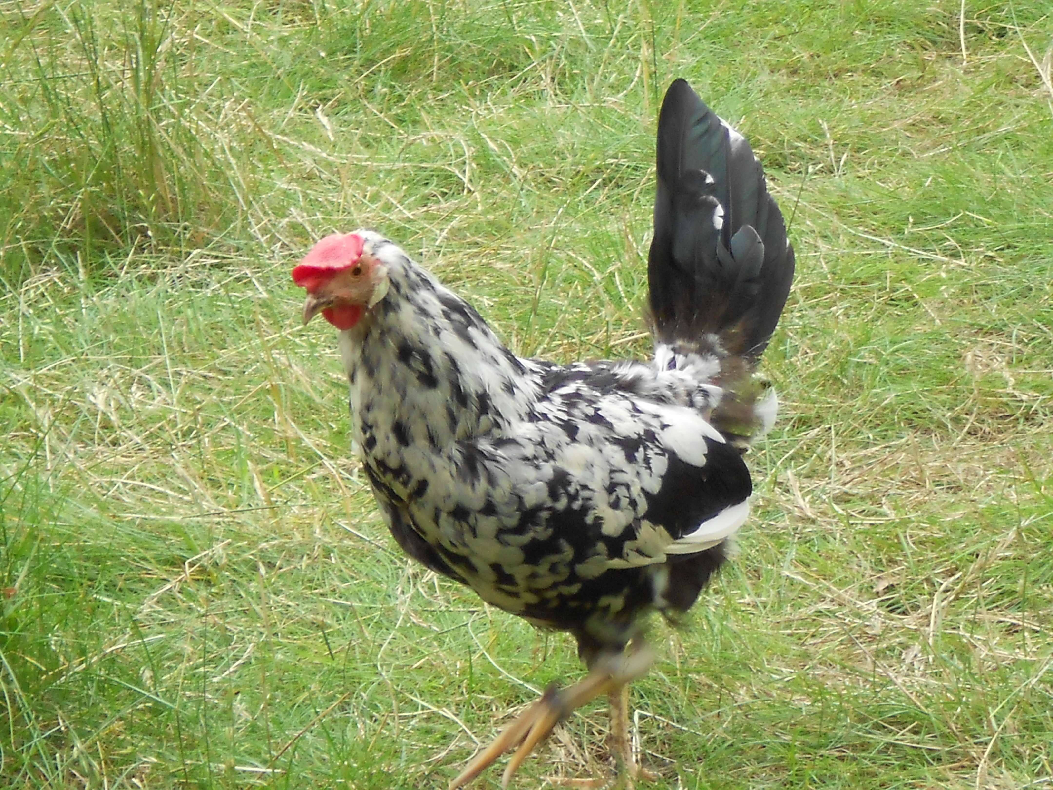 Orusthöna (female)